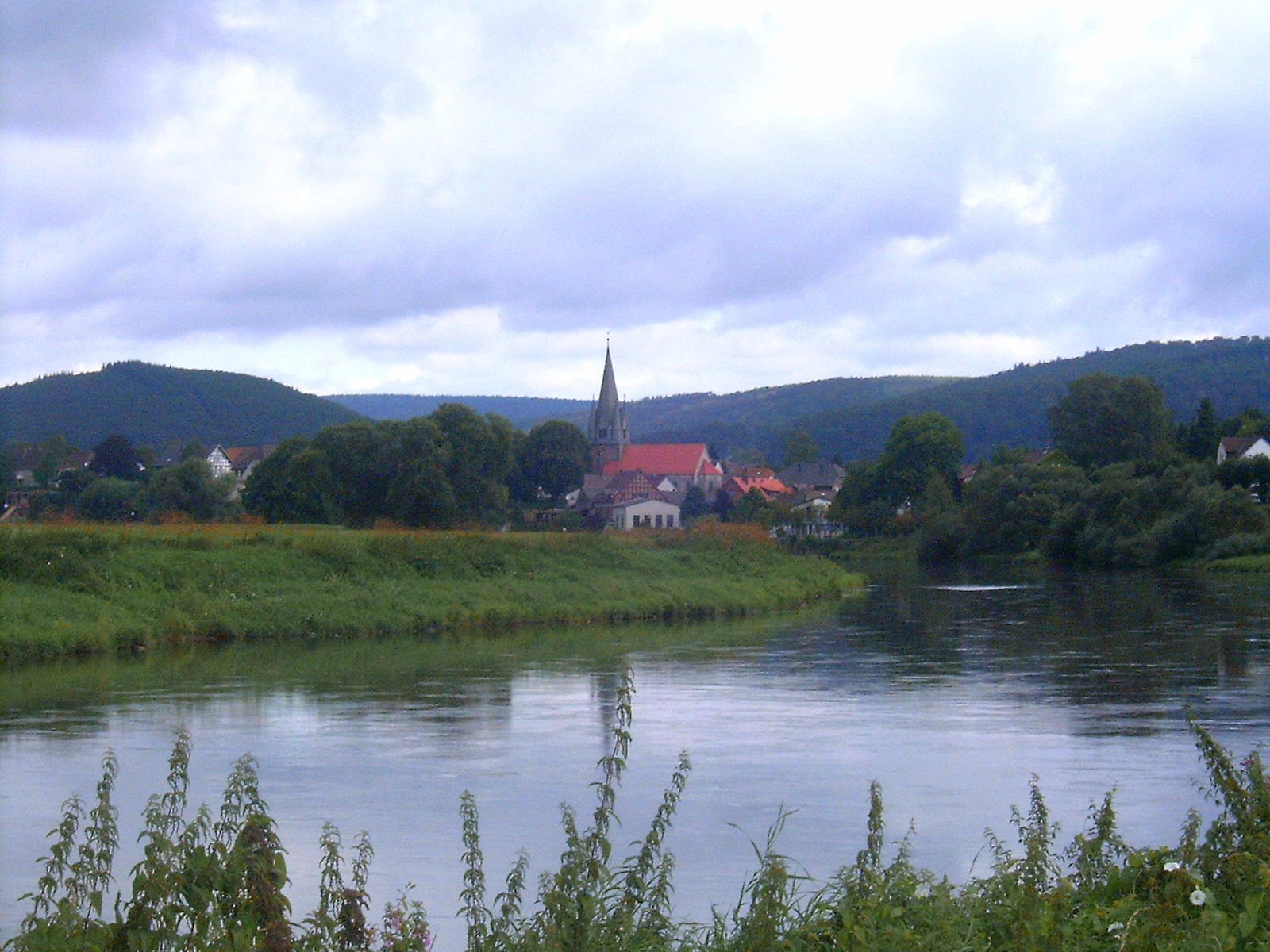 River Weser near Bodelfelde